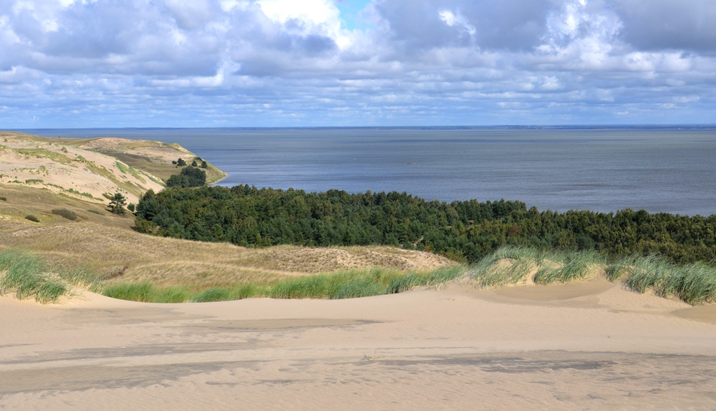 Lydumo ragas, sandy peninsula in Curonian Spit, Neringa municipality, Lithuania